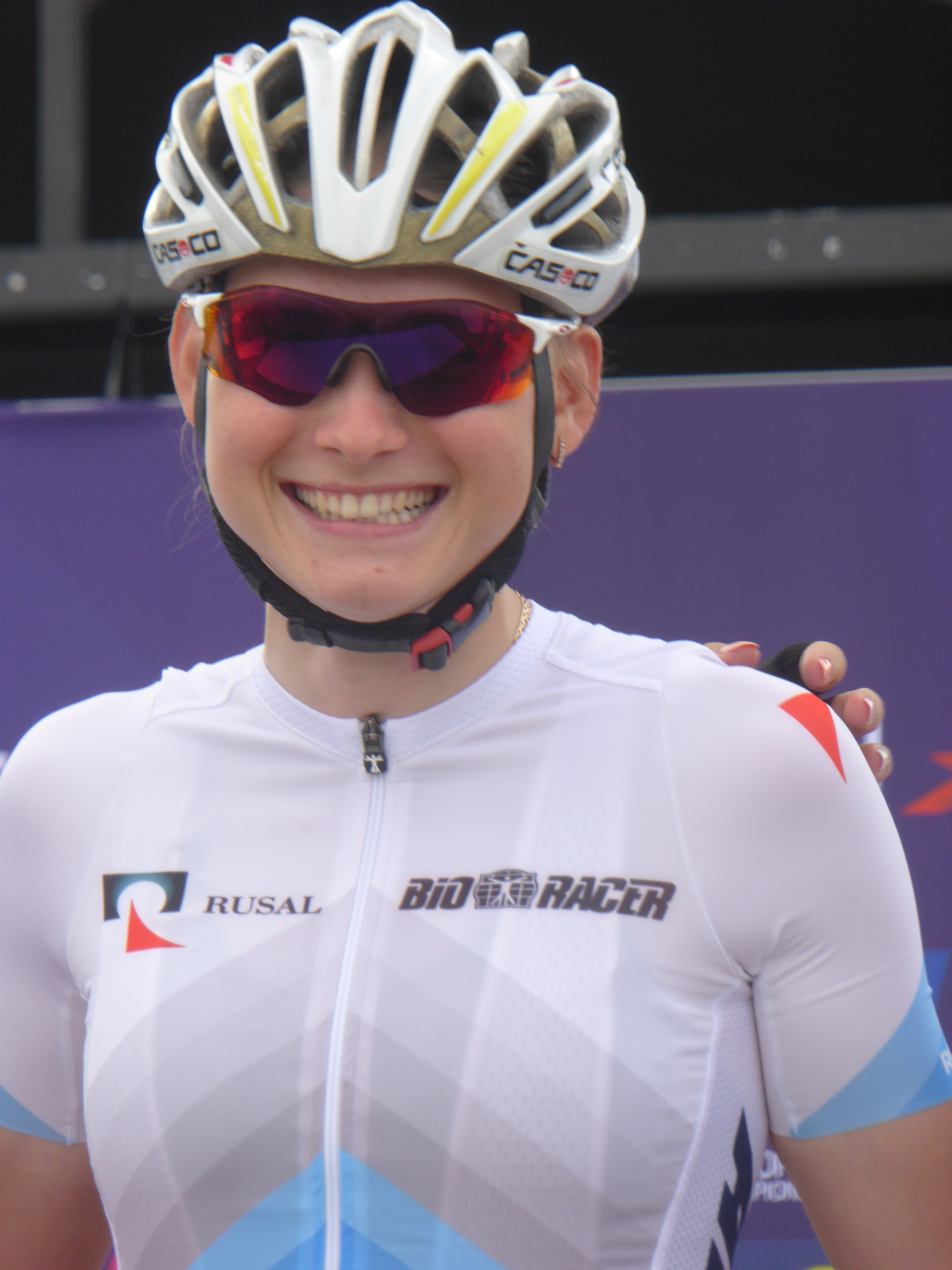 Anastasiia Pliaskina (Russia), prior to the women's road race at the 2018 UEC European Road Cycling Championships in Glasgow.